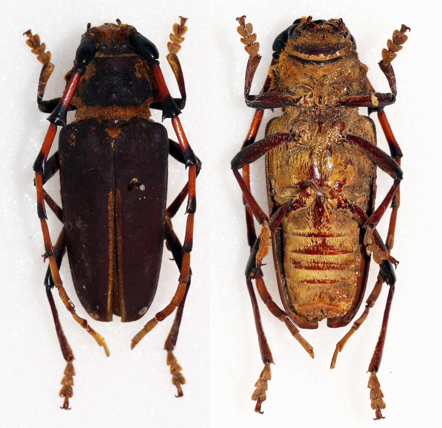 Olivier.1790 Sex: Female Data: 20-10-12 - Canindeyu - Corpus Christi - Guyrah Keha - Paraguay Size: 31.2mm